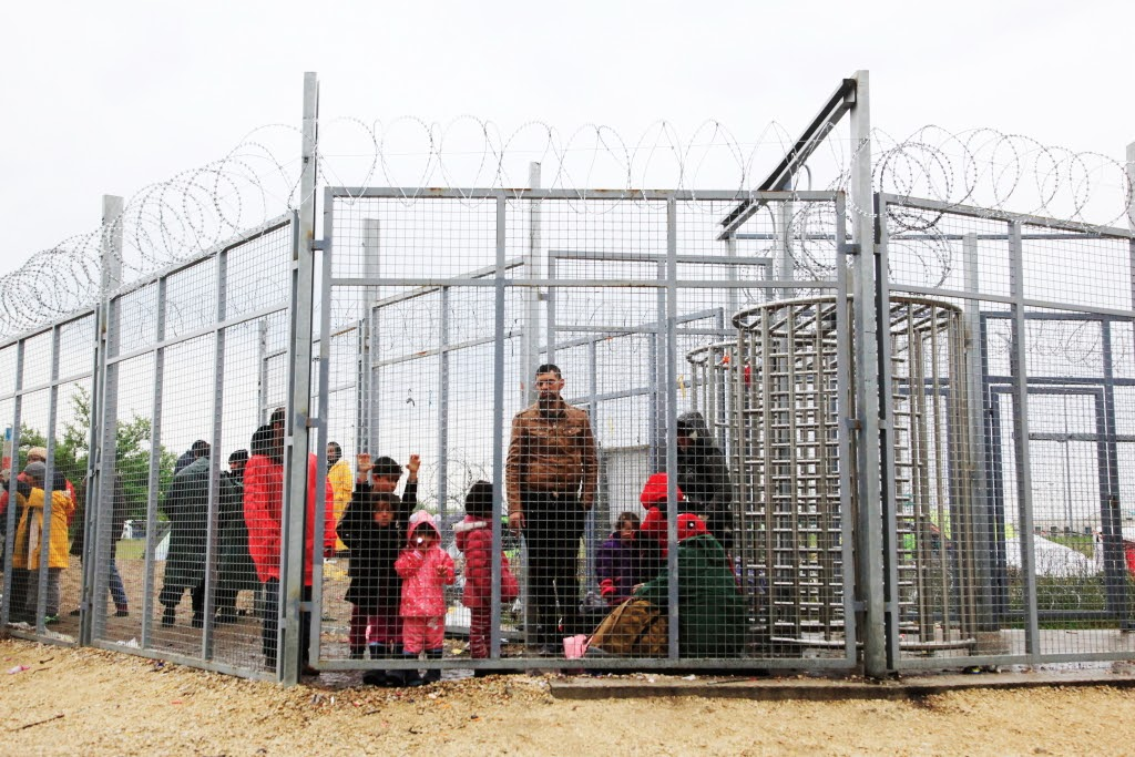 Visit to Röszke and Tompa, Hungary